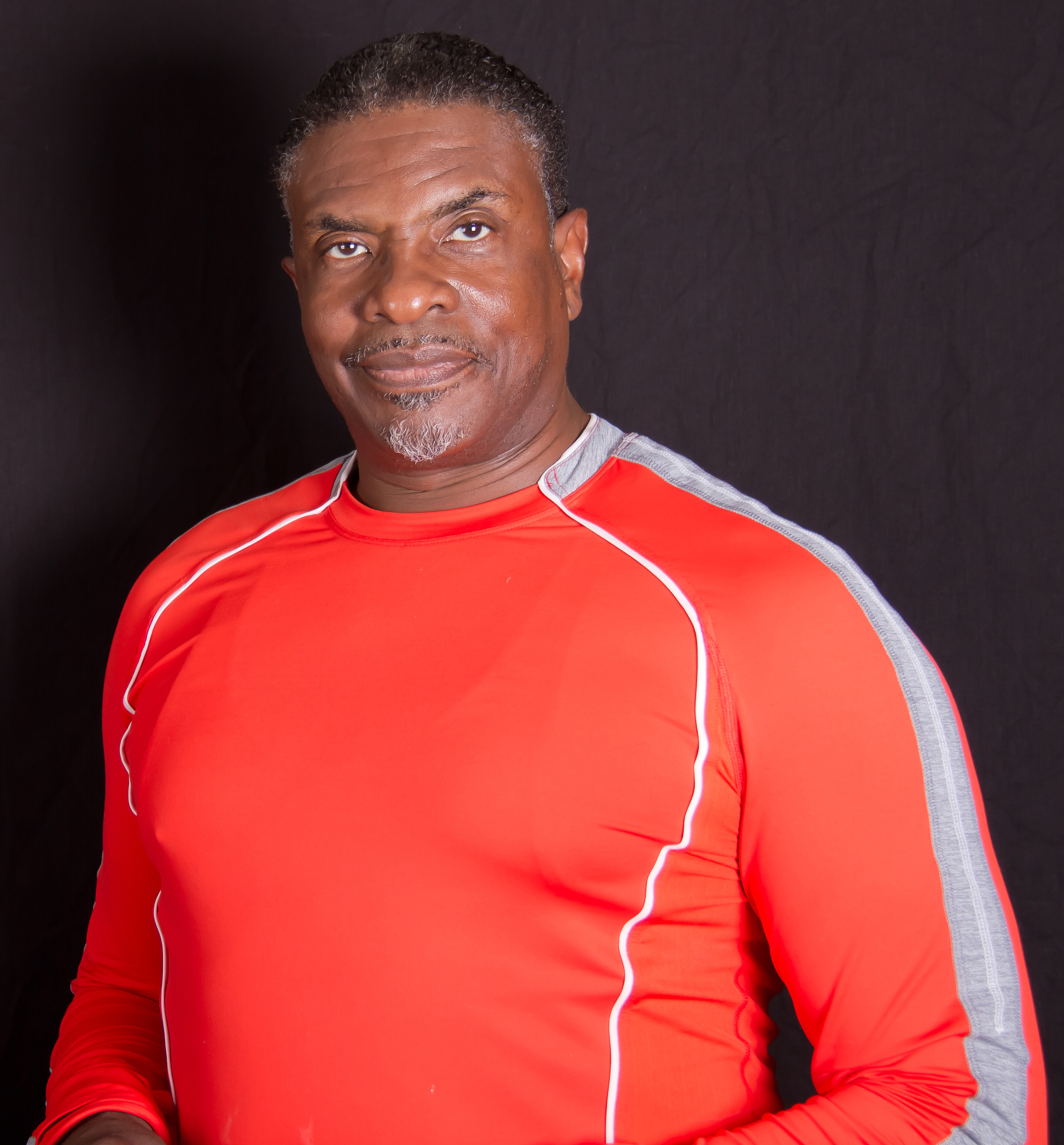 Keith David in June 2010.